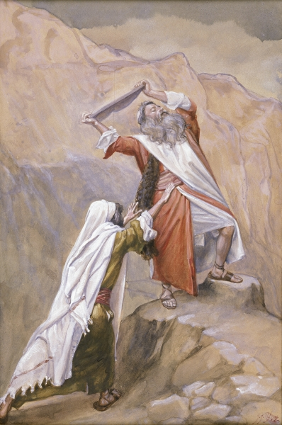 Moses Destroys the Tables of the Ten Commandments, c. 1896-1902, by James Jacques Joseph Tissot (French, 1836-1902), gouache on board, 10 3/8 x 6 7/8 in. (26.4 x 17.5 cm), at the Jewish Museum, New York